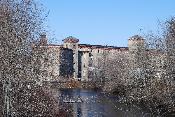 Historic Centerville Mill, West Warwick, Rhode Island